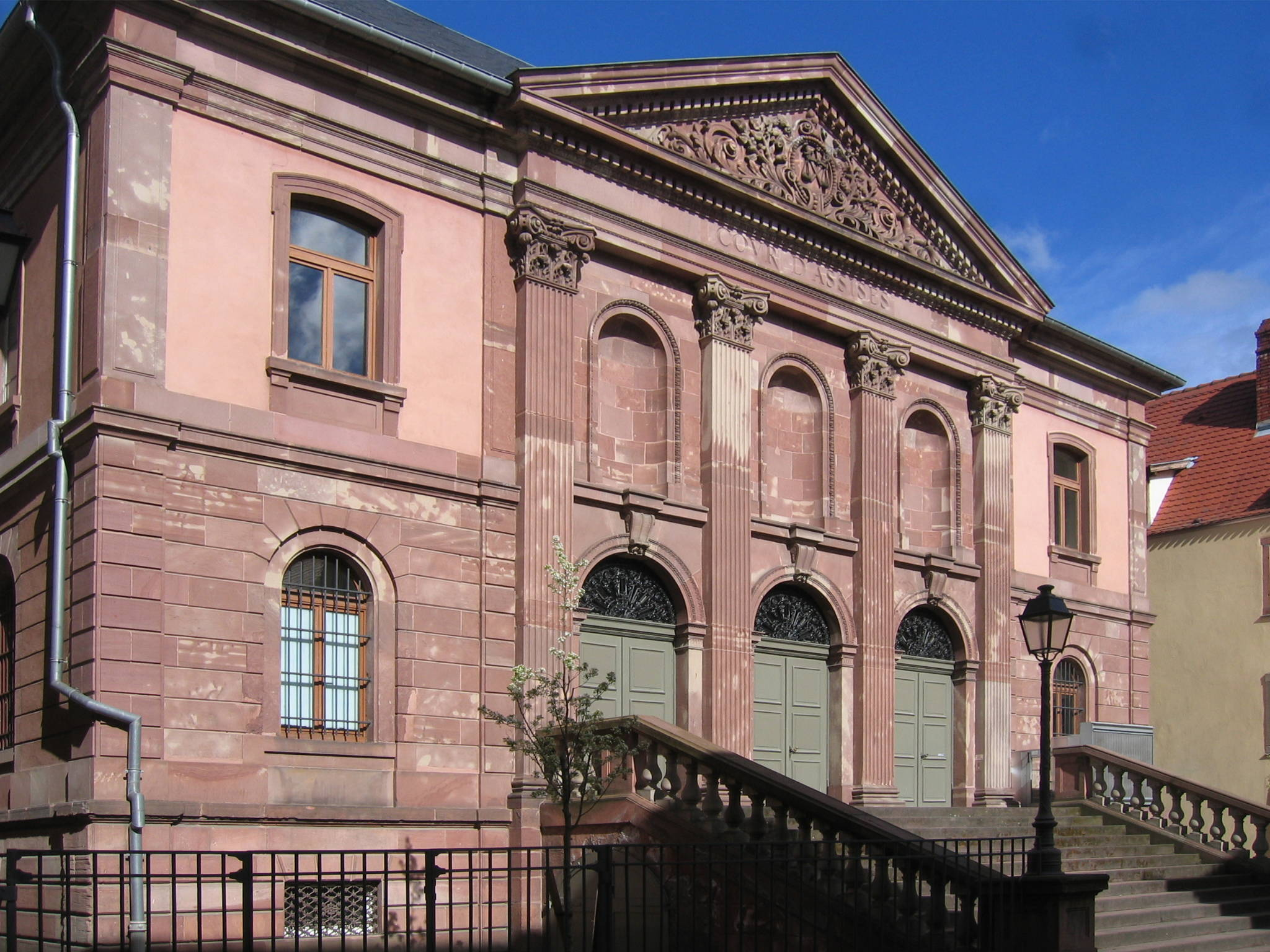 Court of Assizes in rue Berthe-Molly in Colmar (Haut-Rhin, France). .